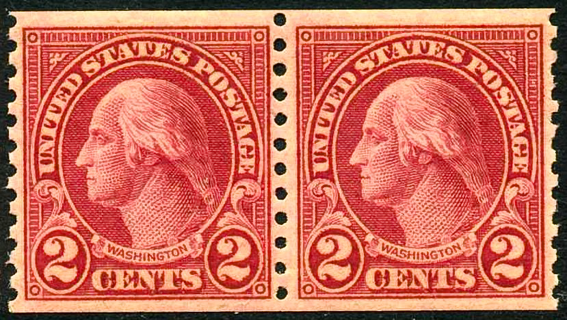 US Postage stamps, George Washington, coil pair, regular issue, 1932, 2c, red